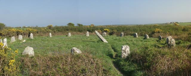 Boscawen-Un Stone Circle. Ancient home of the Gorsedd of Kernow, the circle lies half a mile south of the A30 trunk road.